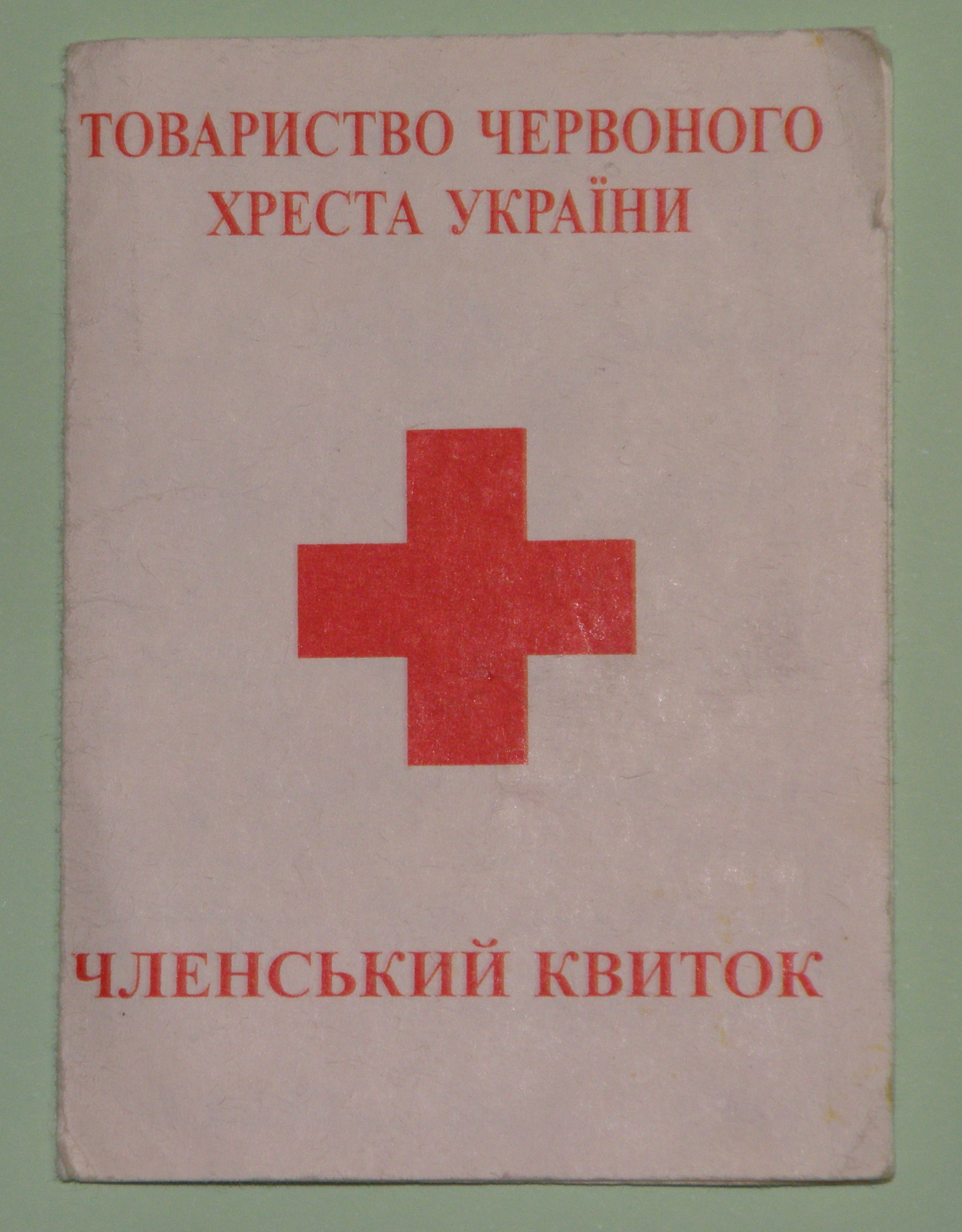 Member's ticket of Ukrainian Red Cross Society.